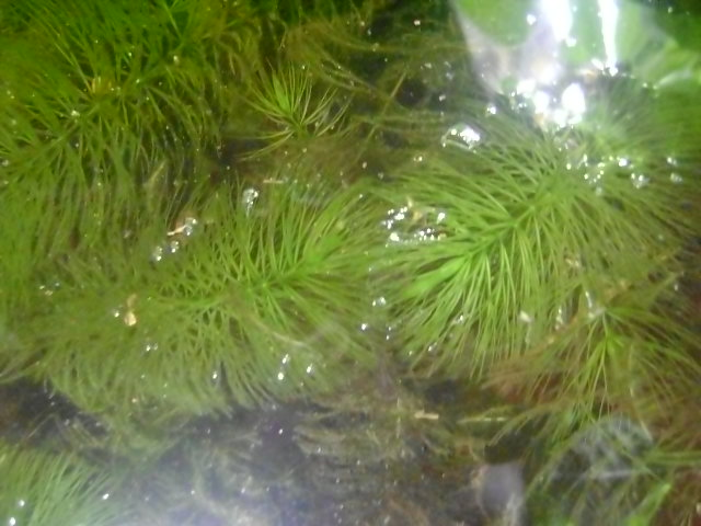 Coontail